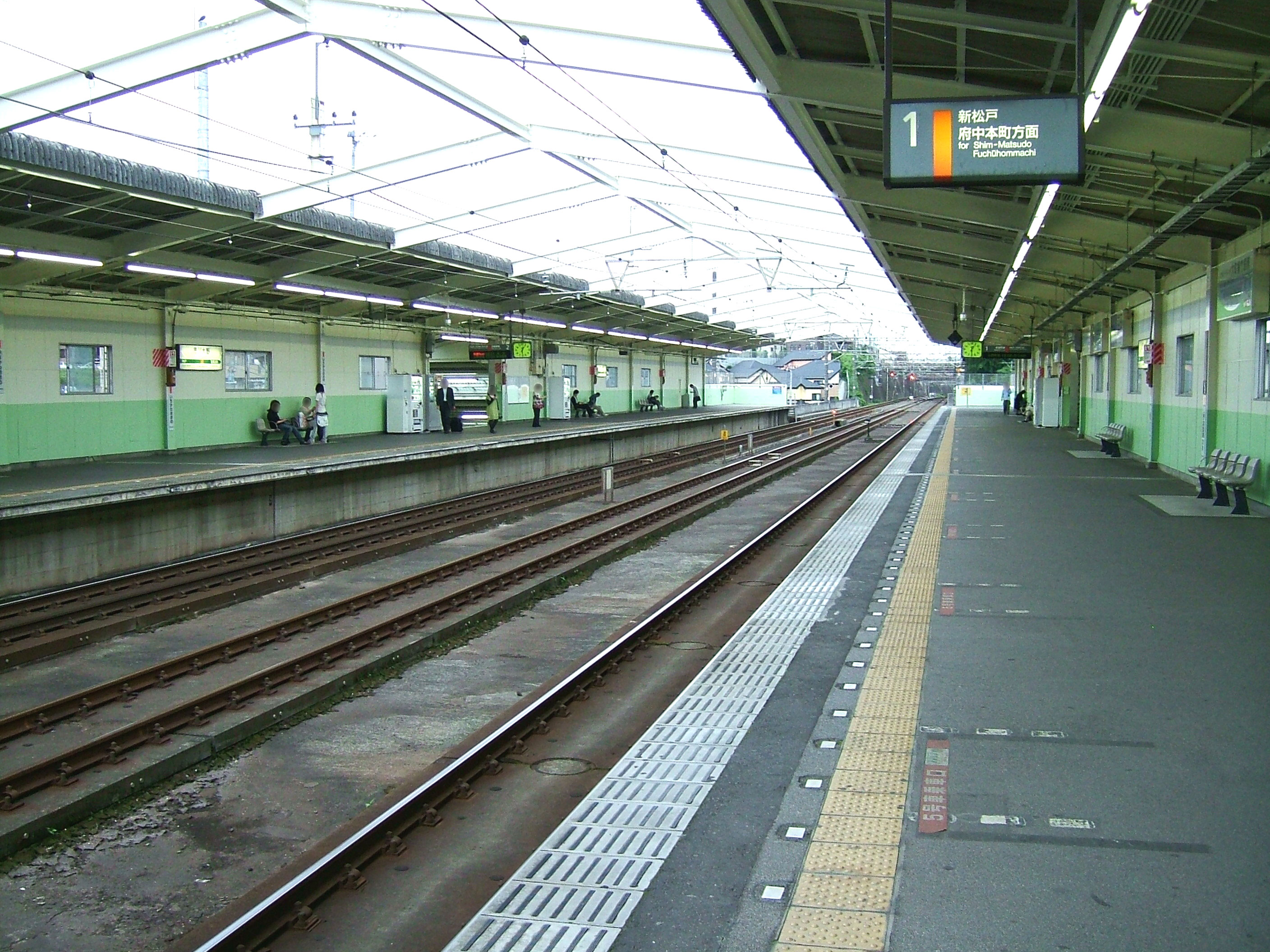 Ichikawa-Ōno Station platform (East Japan Railway Musashino Line)